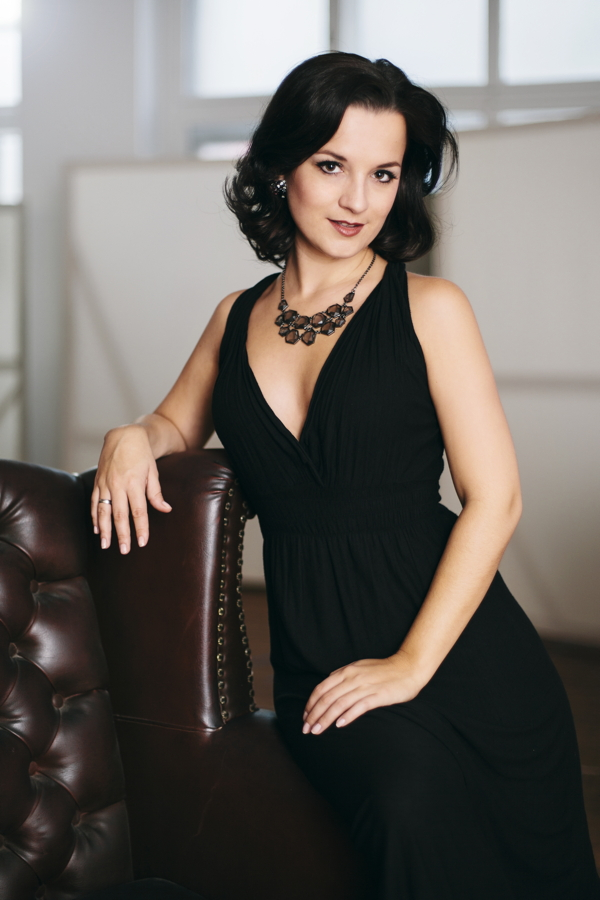 Portrait der Sopranistin Elisabeth Schwarz